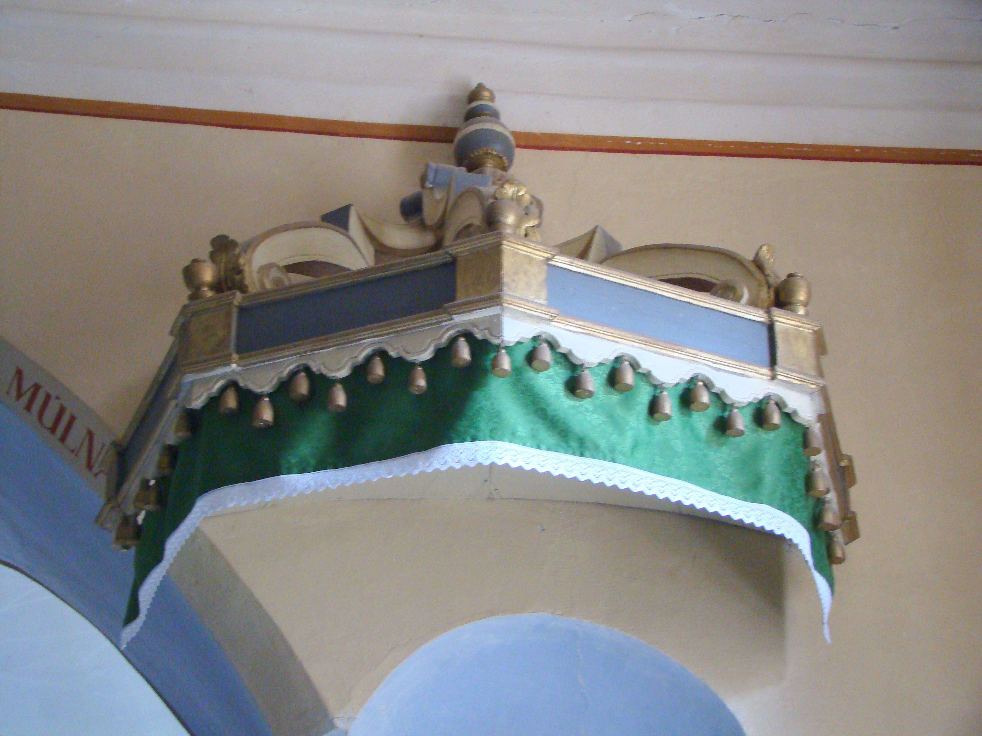 Lutheran church in Satu Nou, Brașov County, Romania